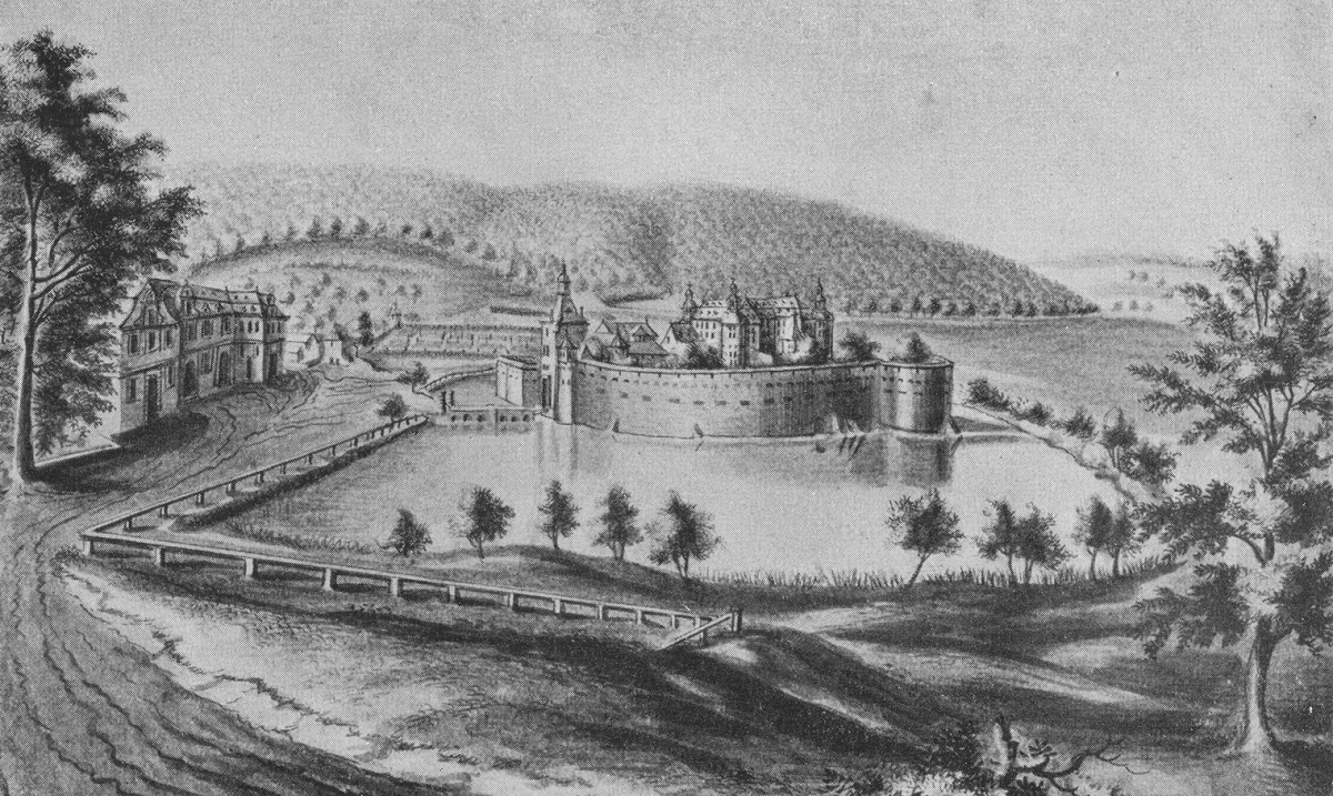 Schloss Crottorf, old ink drawing